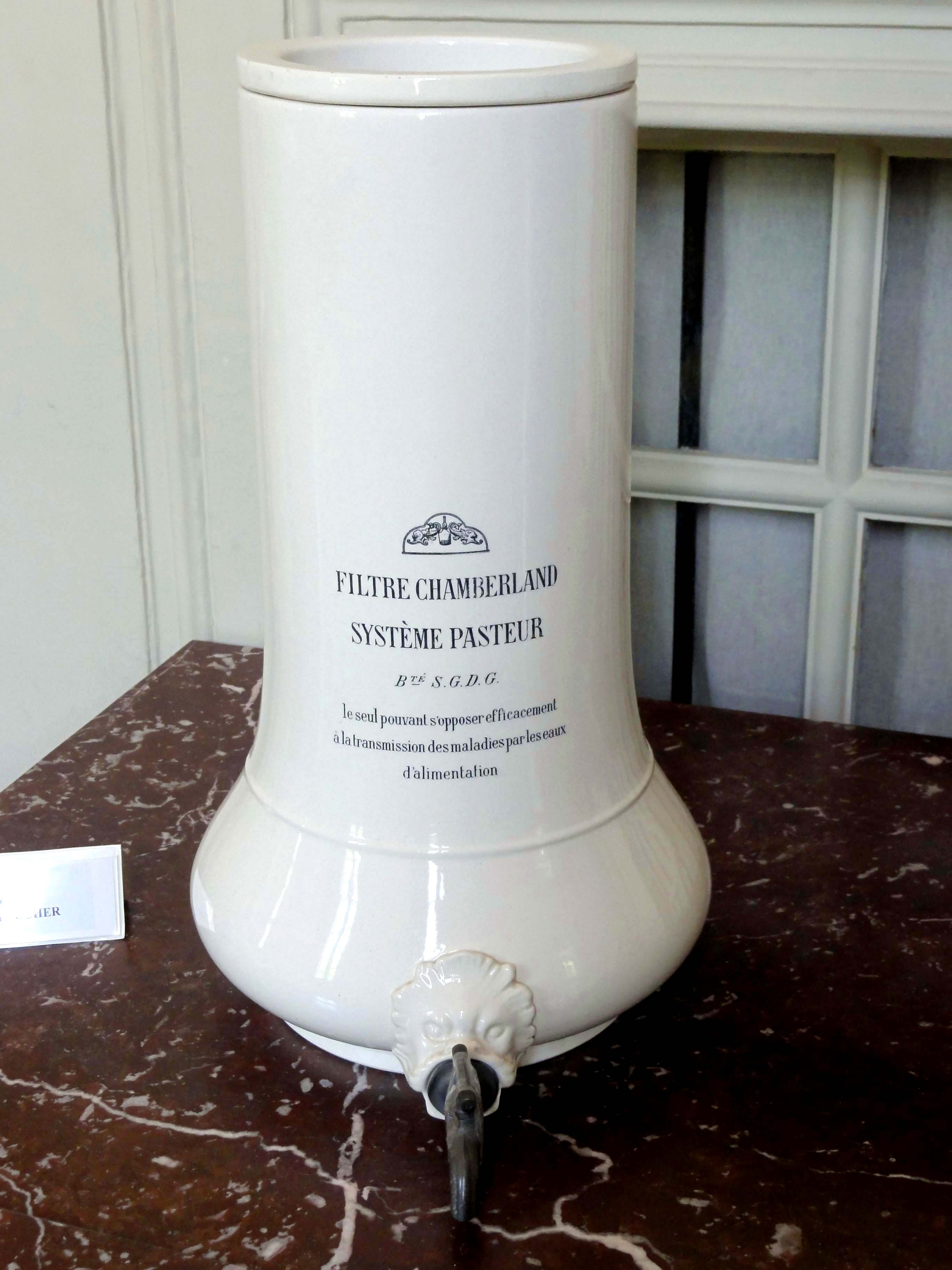 Filtre Chamberland.